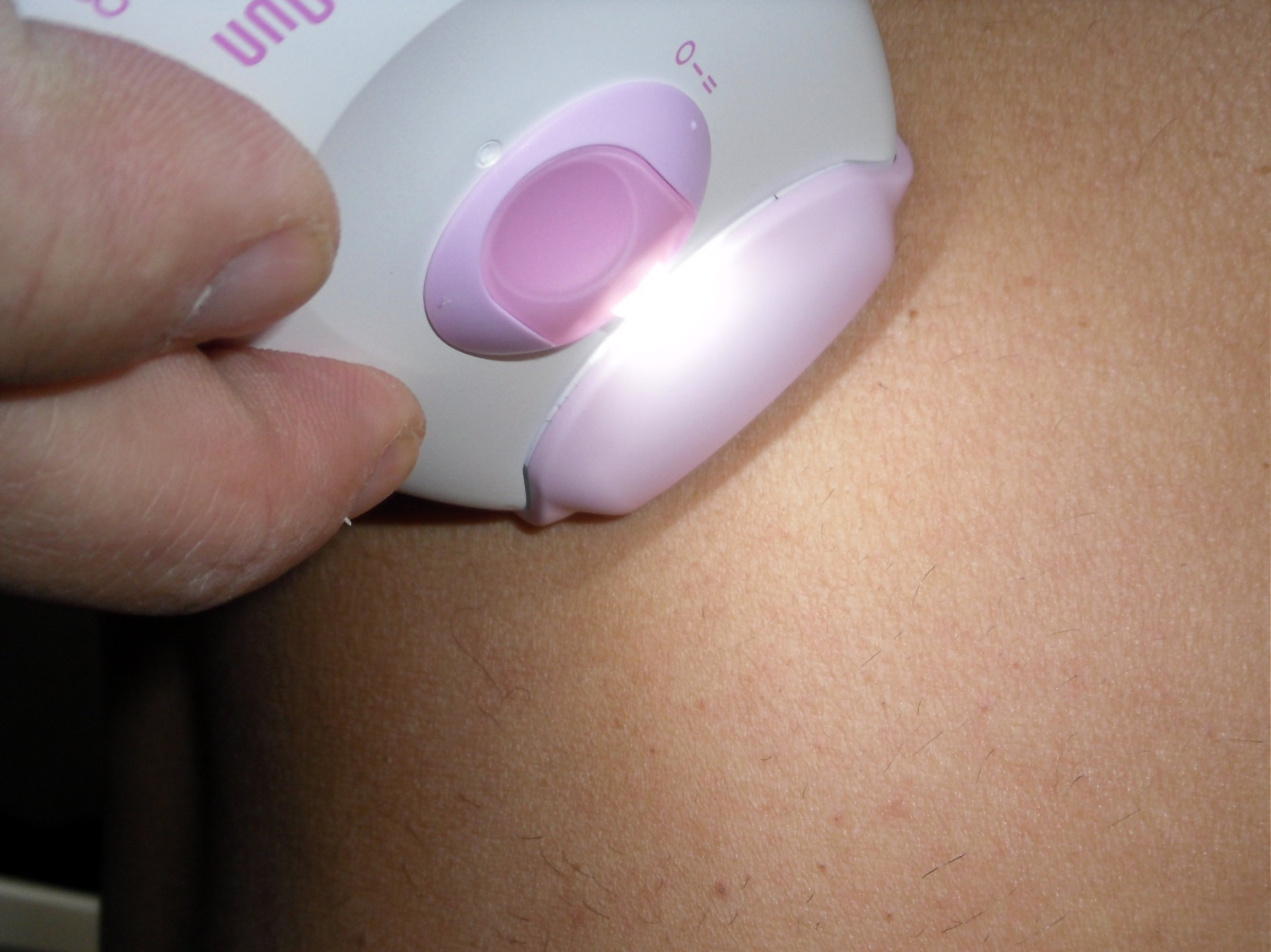 Braun epilator in operation